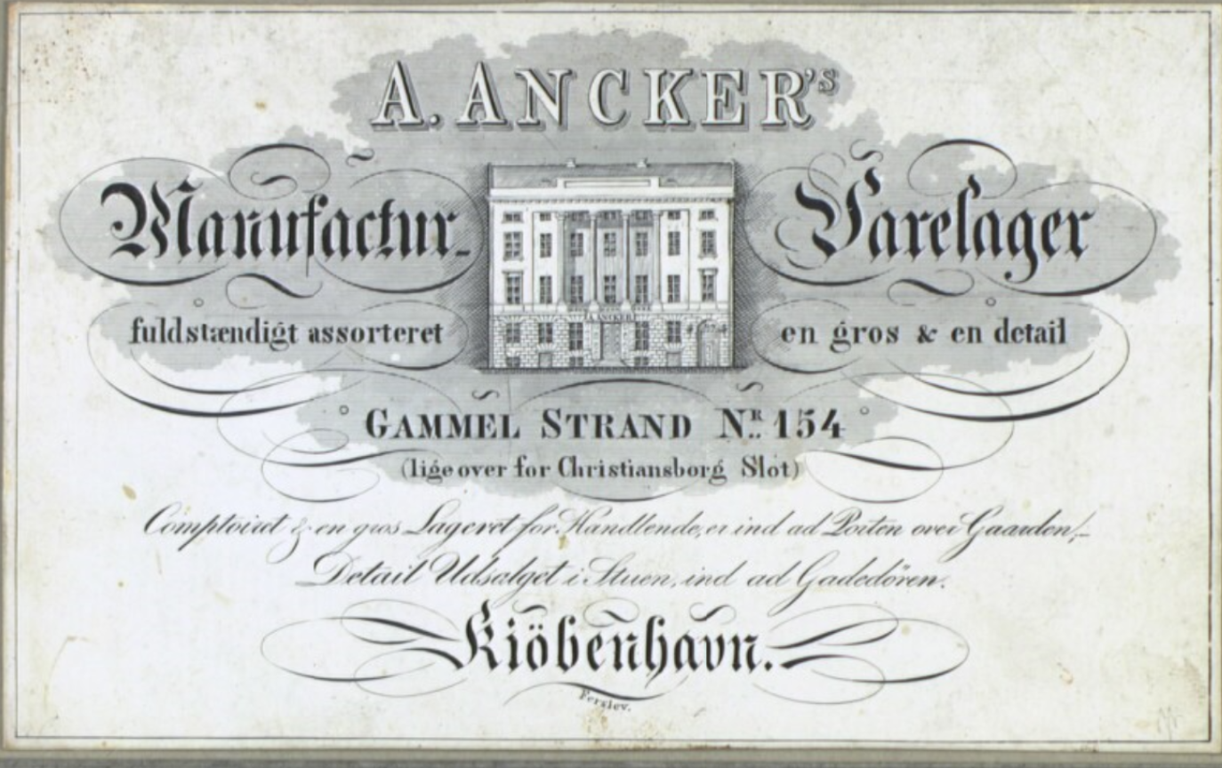 A. Anckers Manufactur Varelager at present-day Ved Stranden 14 in Copenhagen, Denmark